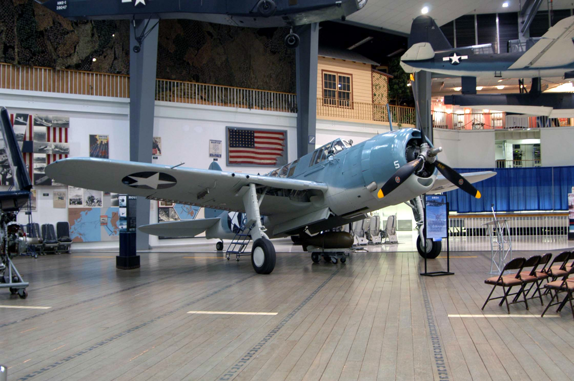 The Brewster SB2A Buccaneer of the U.S. National Museum of Naval Aviation at Pensacola, Florida (USA). The museum's SB2A was originally produced as an A-34 (s/n 462-860) of the U.S. Army Air Forces and operated from William Northern Field near Tullahoma, Tennessee (USA). Somehow the aircraft was at some point in its service pushed off the runway at that airfield into a nearby swamp. There collector Dave Talluchet found it and another A-34 during the mid-1970s. The aircraft were taken to the Naval Air Development Center (NADC) Warminster, Pennsylvania, which in part occupied the former buildings of the Brewster Aeronautical Corporation where it had been built. In an agreement with the collector, about sixty former Brewster employees, some of whom continued to work at NADC Warminster, undertook restoration of one of the Buccaneers, starting in 1978. However, the restoration was going very slow. In 2004, the aircraft was acquired by the NMNA and the plane was completed in 2007 and it was placed on indoor static display.